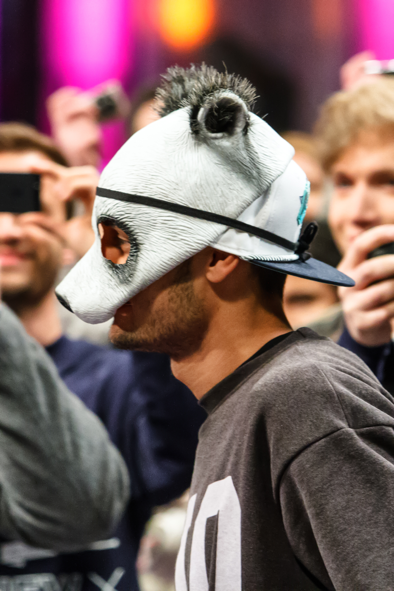 Cro at the Echo music award 2013